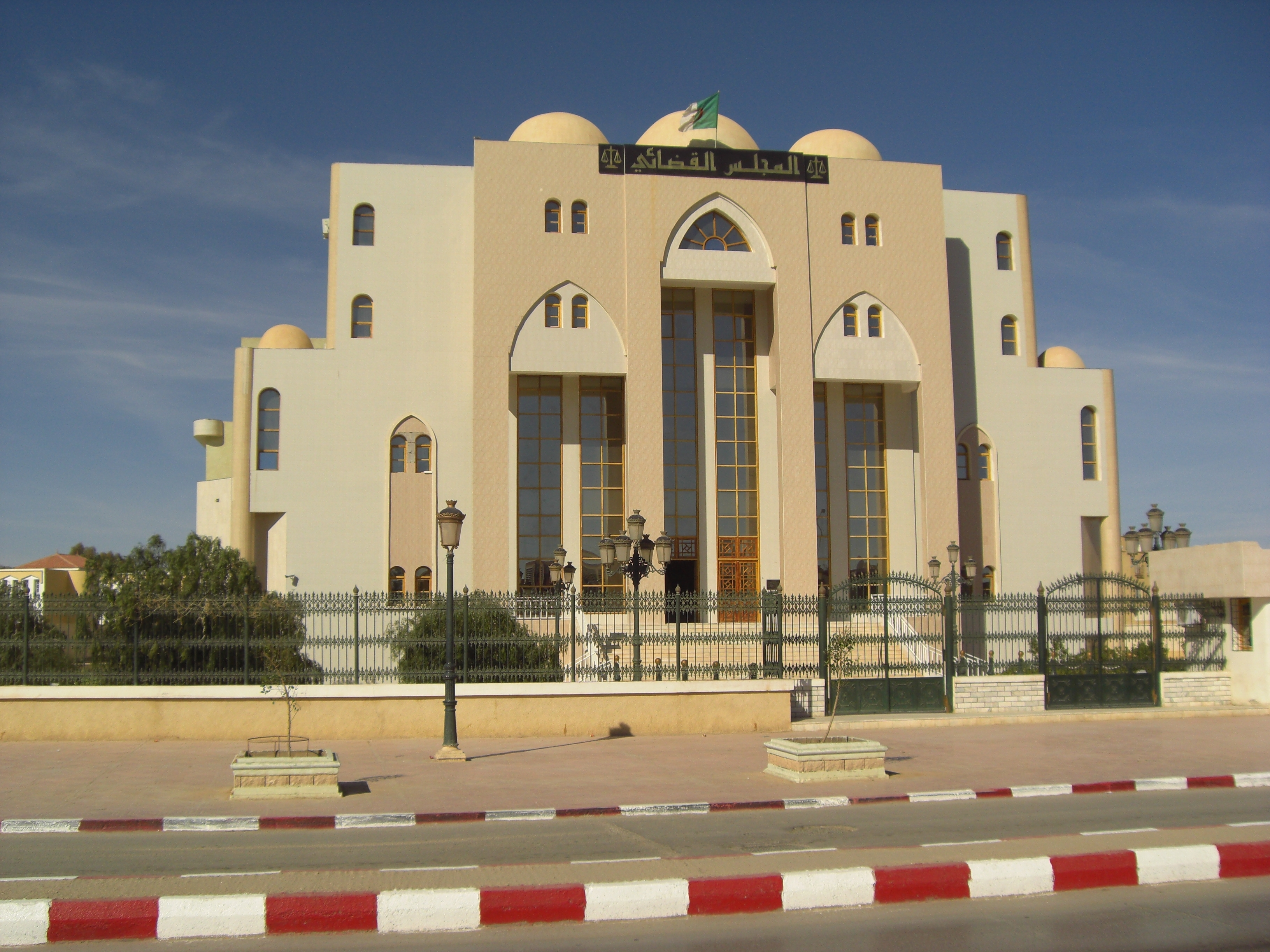 Council courthouse in Biskra.